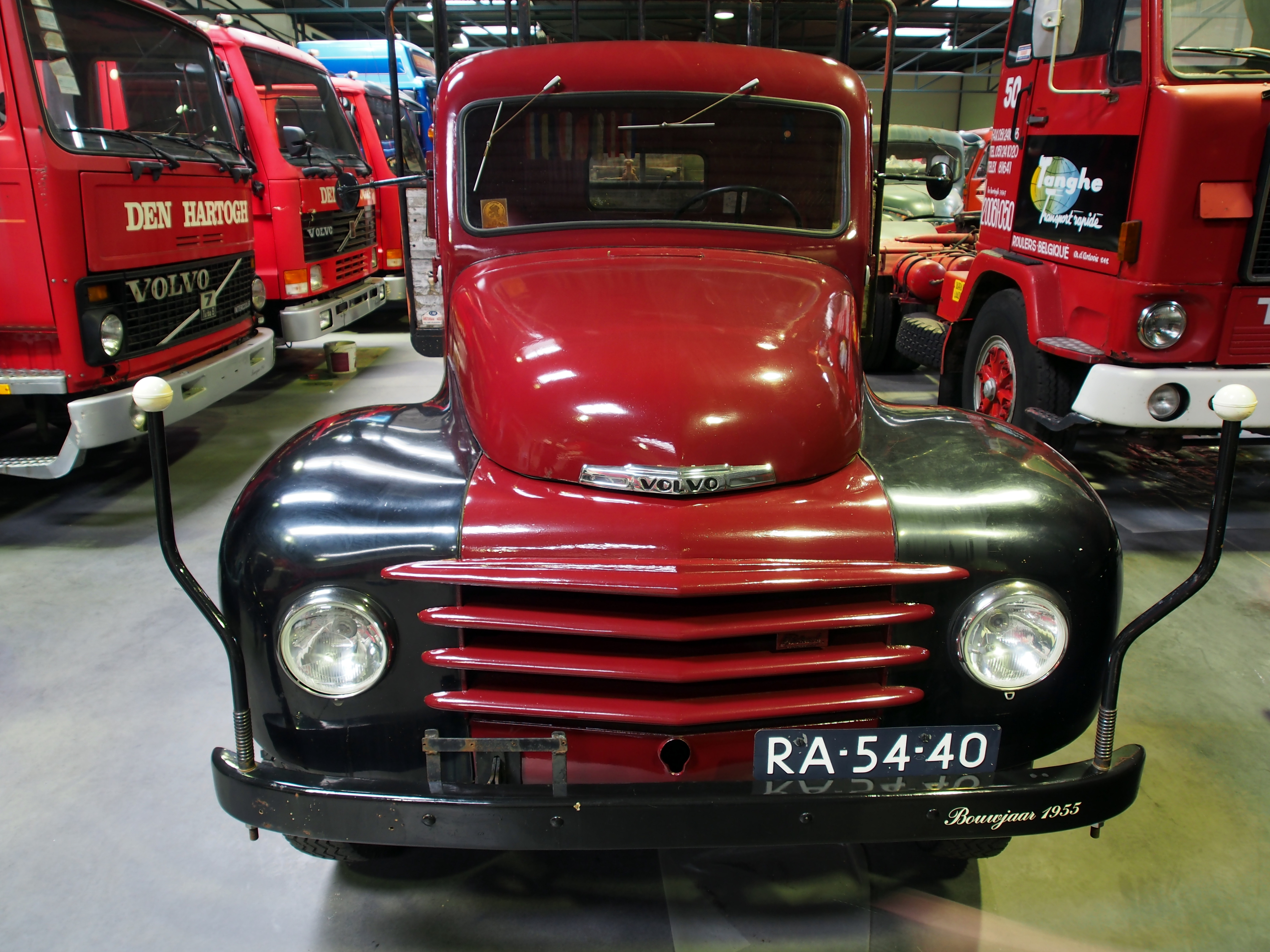 Photographed at the Hyacintenrit 2013 stop in the Jack den Hartogh oldtimer truck mueseum.